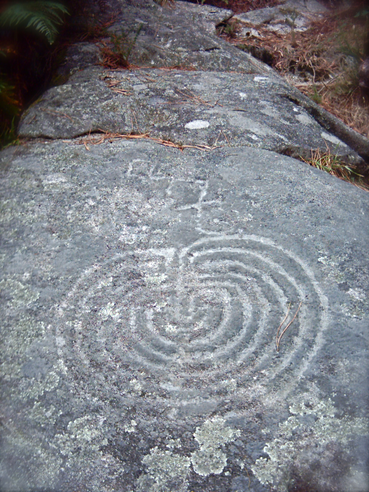 Labirinto do Outeiro do Cribo, A Armenteira, Meis, Pontevedra, Galicia, Spain. Possibly dating from as early as the Bronze Age (though rock carvings are notoriously difficult to date with certainty).